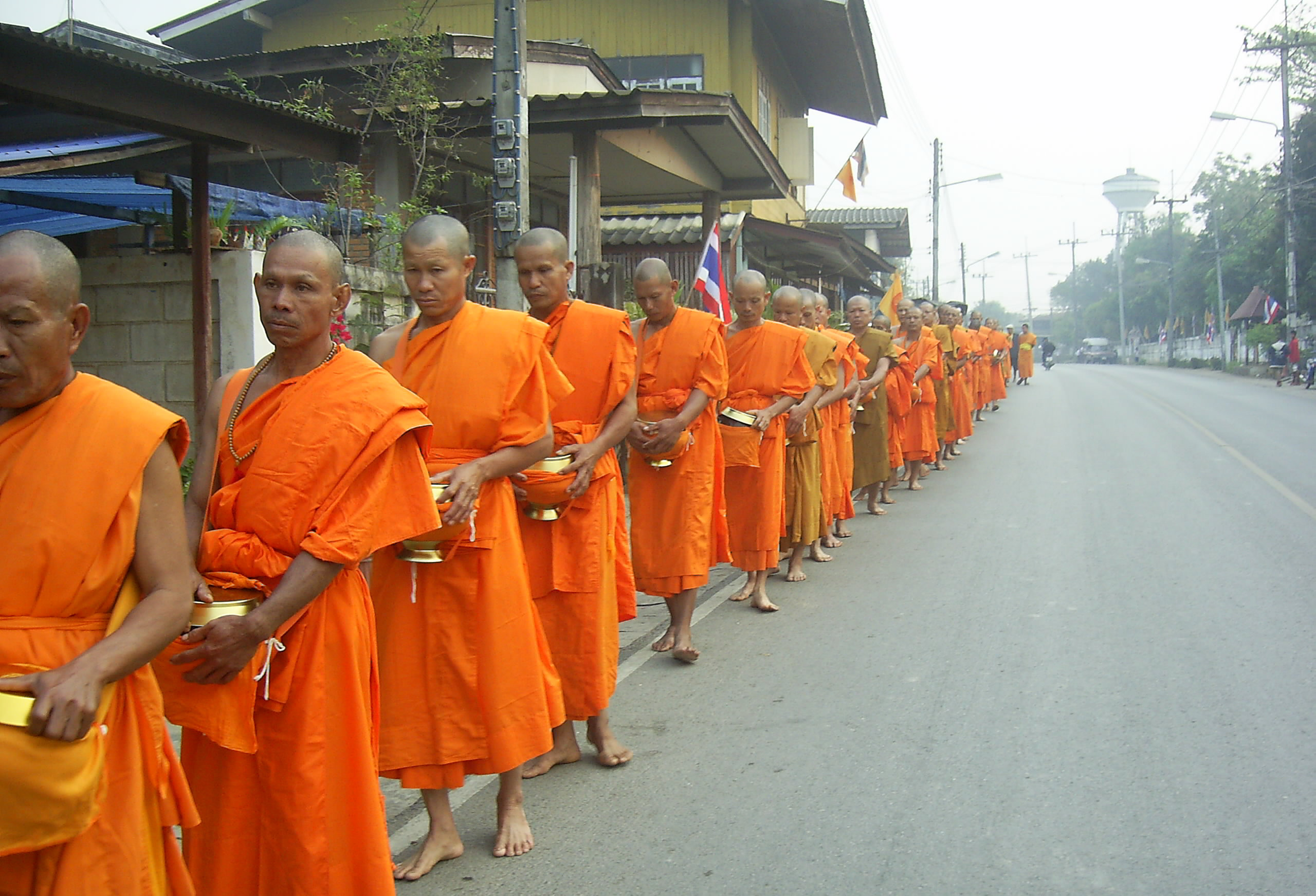 Phrae, Thailand, 2006. Own work